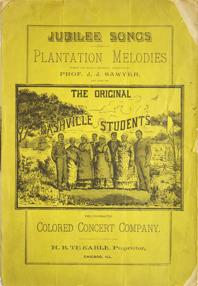 Book of songs composed by Jacob J. Sawyer, music director of the Original Nashville Students. Published in 1884.